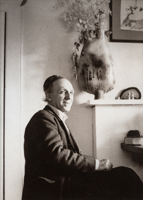 The source of this image is the photographer himself, Roger Kohn, who is the creator and/or sole owner of the exclusive copyright of this photograph, Ivor Cutler, 1973. Mr Kohn agrees to publish this photograph under the Creative Commons Attribution 3.0 License, which states that the artist agrees to share the work under the following conditions: you must attribute the work in the manner specified by the author or licensor (but not in any way that suggests that they endorse you or your use of the work). Permission granted 10th January 2008. Title: Ivor Cutler, 1973 Description: A photograph of the surrealist poet and humourist Ivor Cutler, taken by his friend Roger Kohn, at Ivor's flat in Gospel Oak, North London (1973).